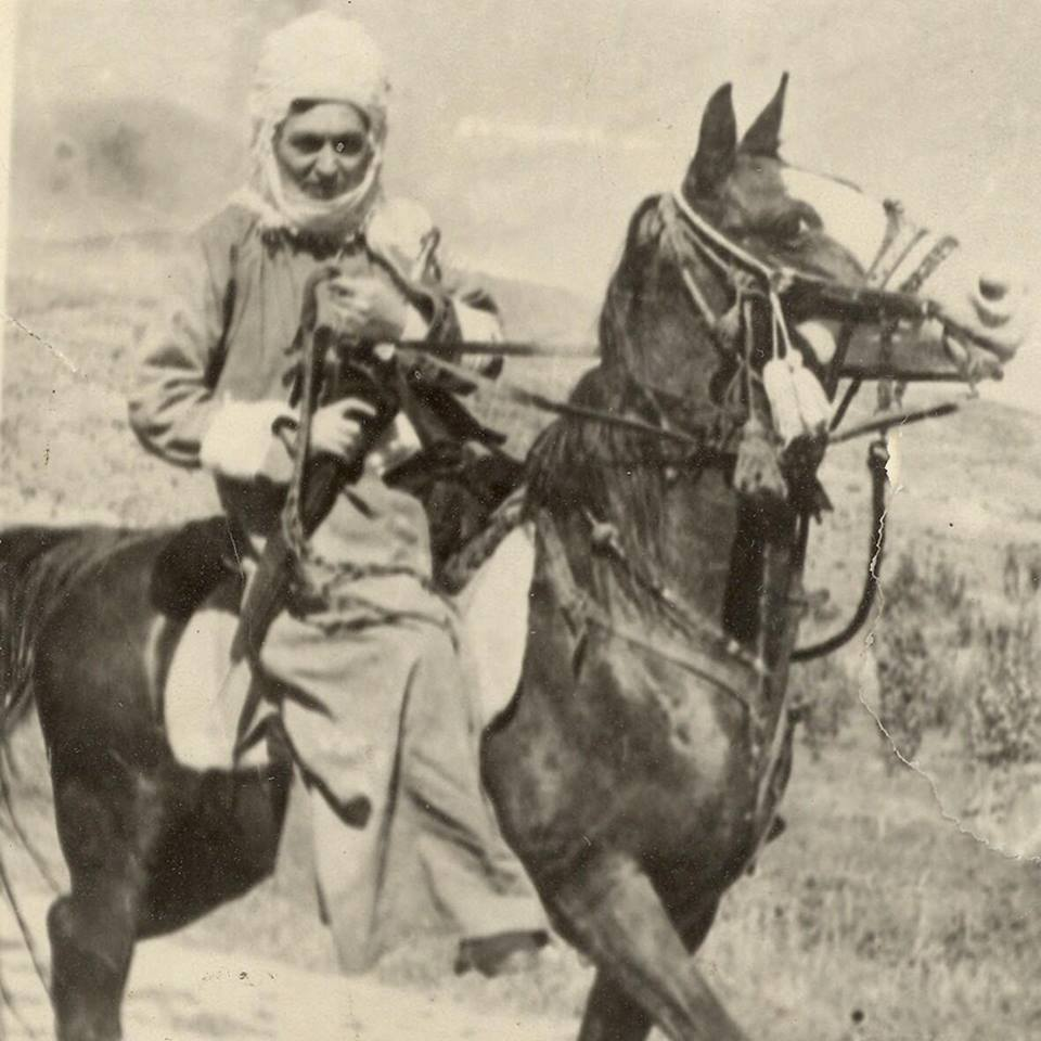 Shaykh Muhammad Osman Sirajuddin riding horse